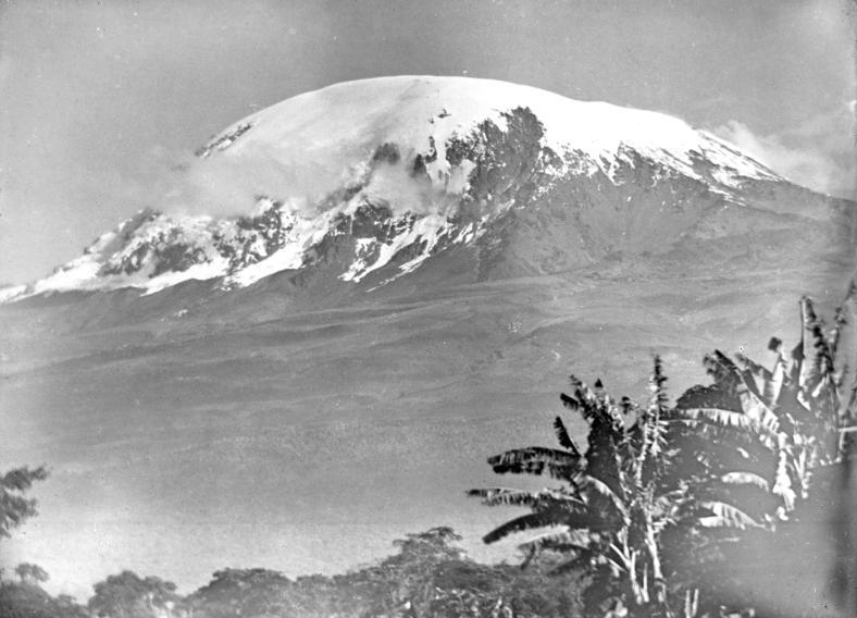 Kibo mountain, between 1906 and 1918, during the German colonization of Tanzania